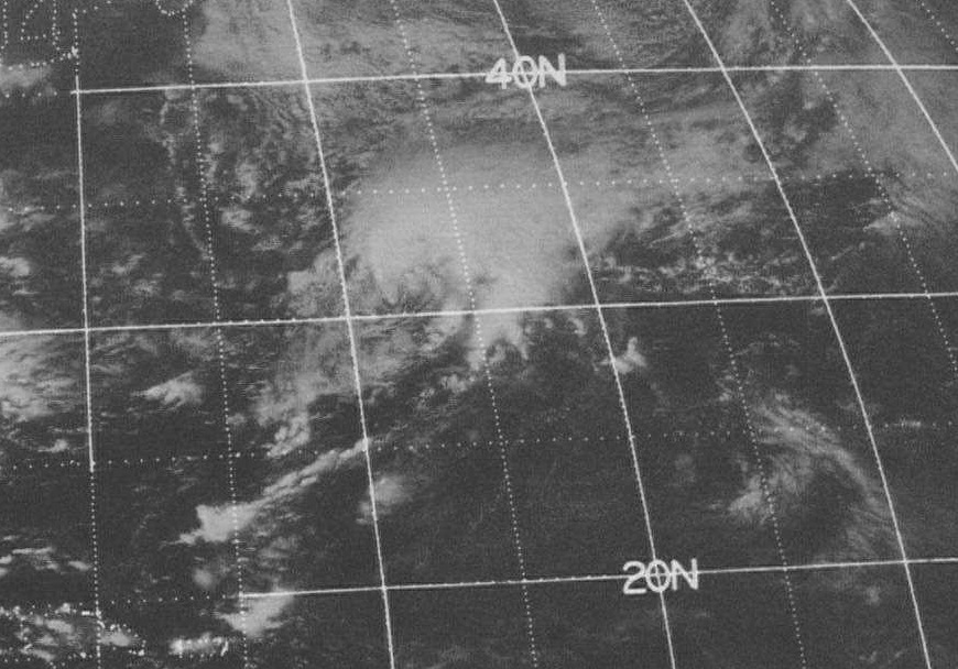 Satellite image of Hurricane Fran (Bravo) on October 9, 1973